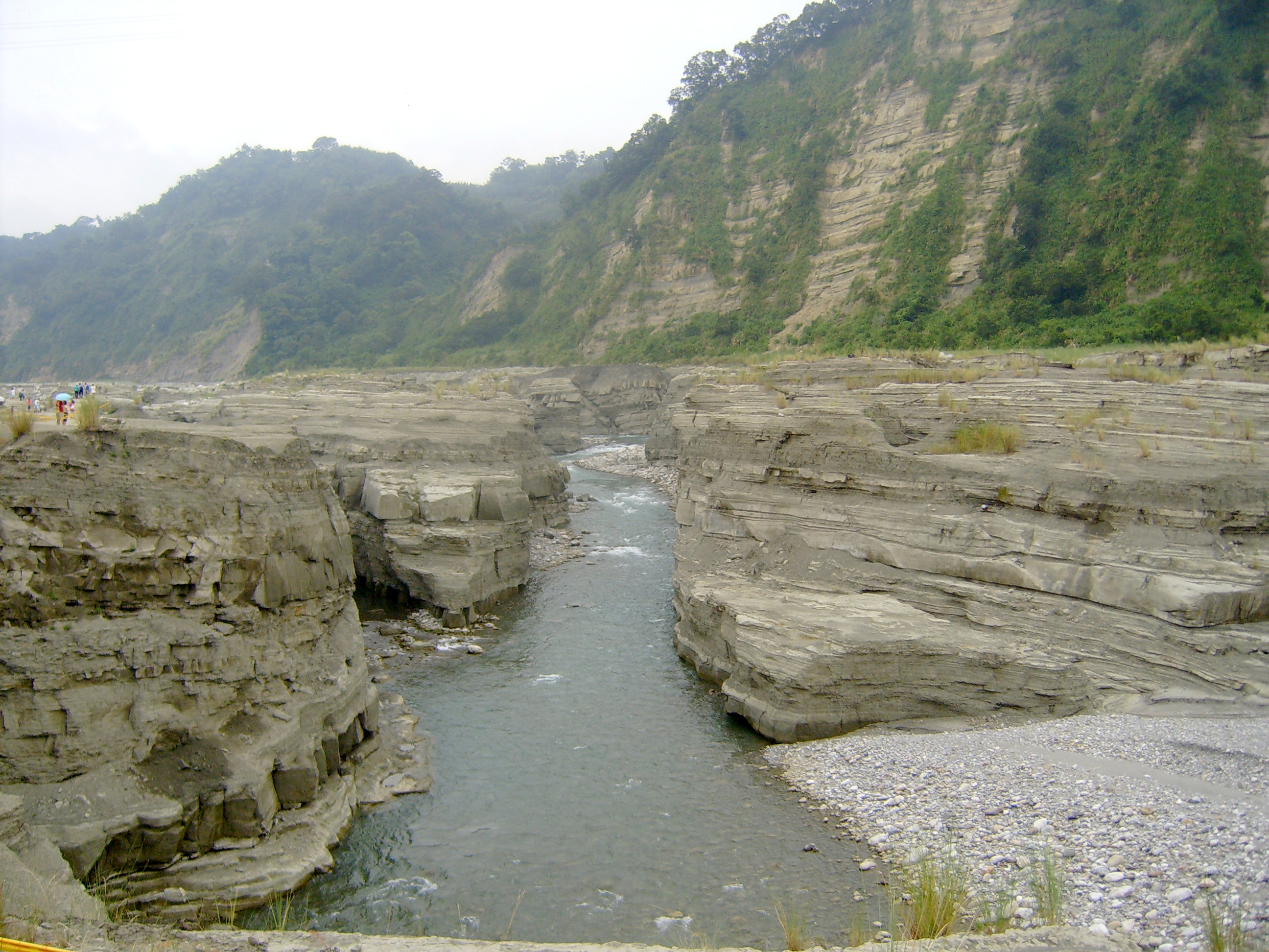 Daan River Canyon is also known as "Zhuolan Canyon",it located on the county border of Taichung and Miaoli,Taiwan.